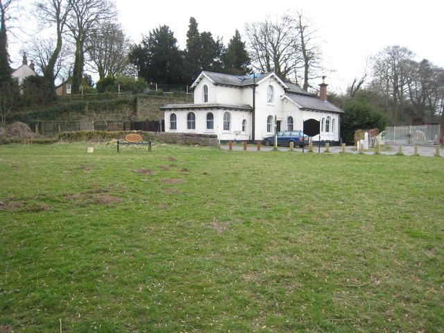 Clifton Station Although the former North Staffordshire line from Rocester to Ashbourne closed in 1963 the station building is still intact and now used as a private residence.